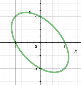 Rotated ellipse with x2 + xy + y2 = 1